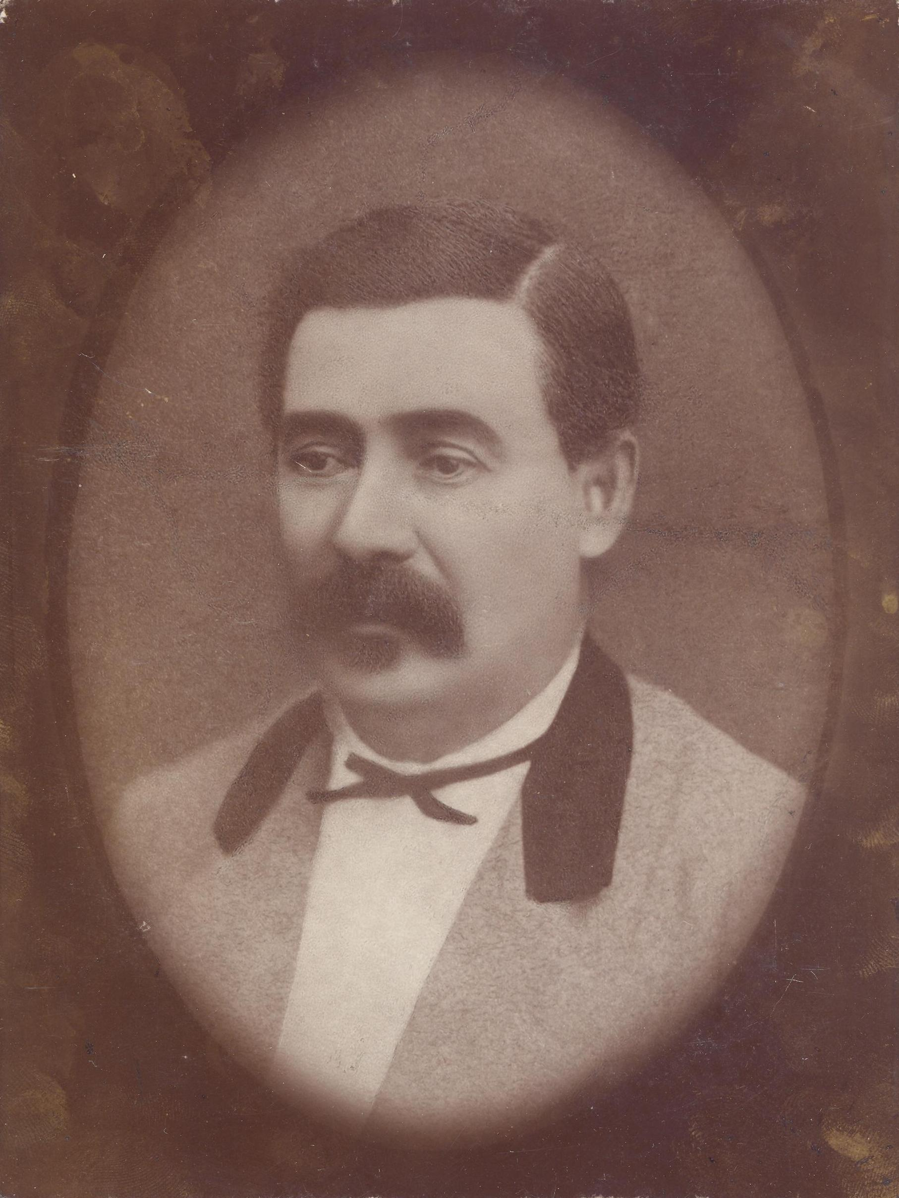 Bulgarian medical doctor Paraskev Stoyanov (1871-1940)